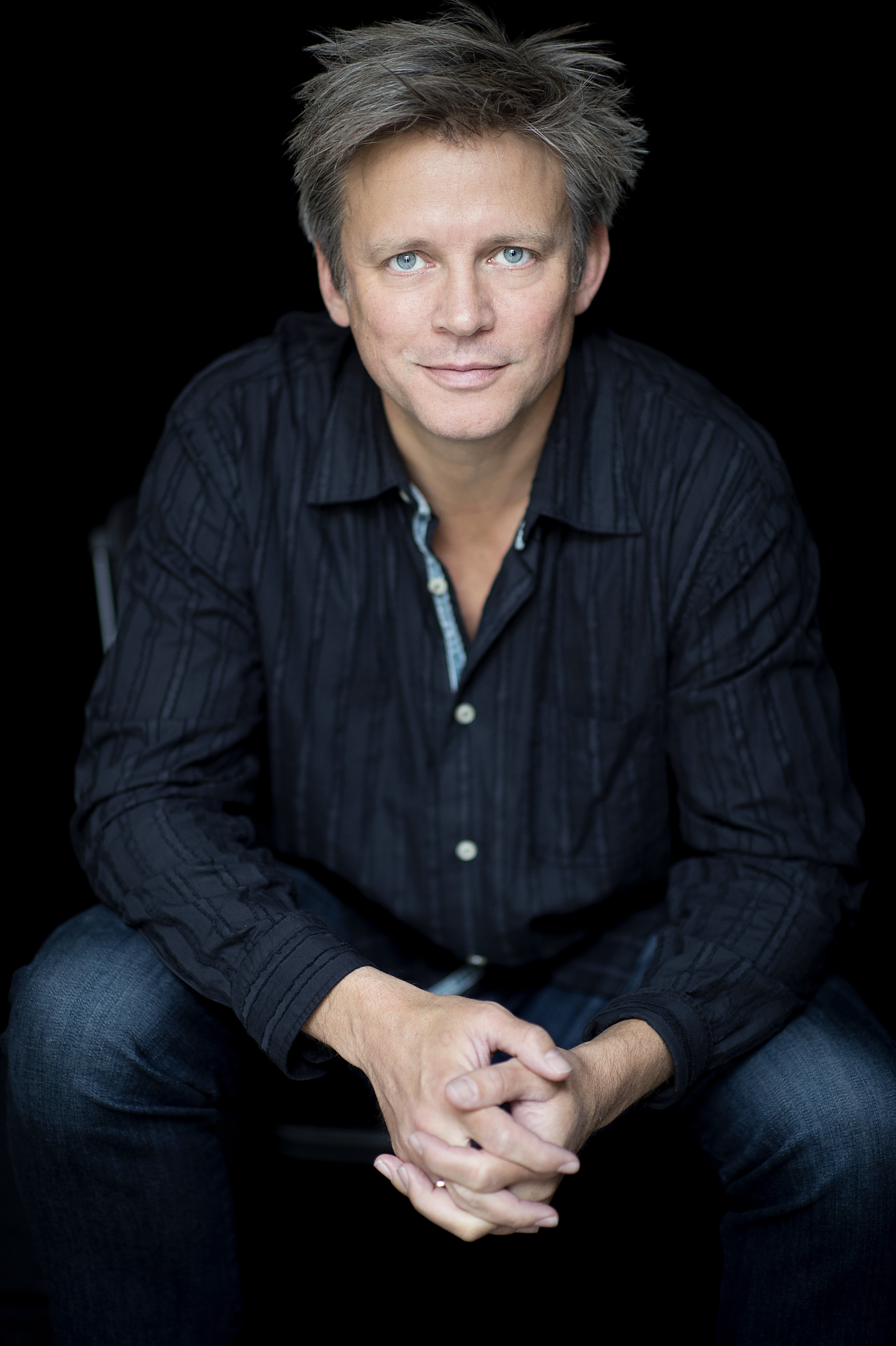 Founder of Second Life, Coffee & Power, & High Fidelity, Inc. Photo Taken by Nieshka Rutherford.